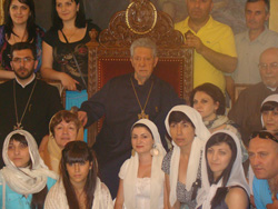 Trip to HolyLand of Sourb Gevorg church